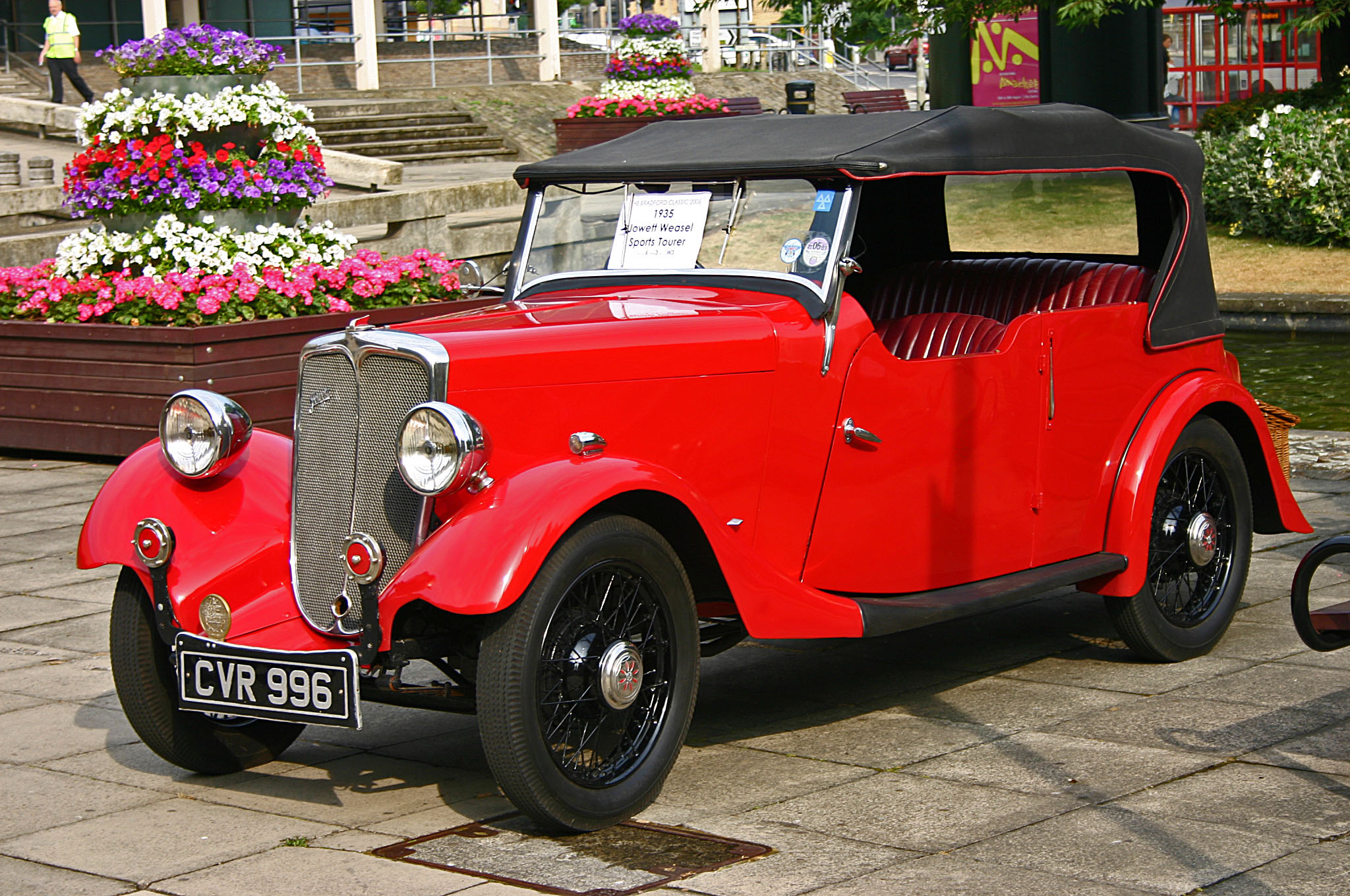 Jowett Weasel, a sports tourer version of the "Long 7hp" from 1935